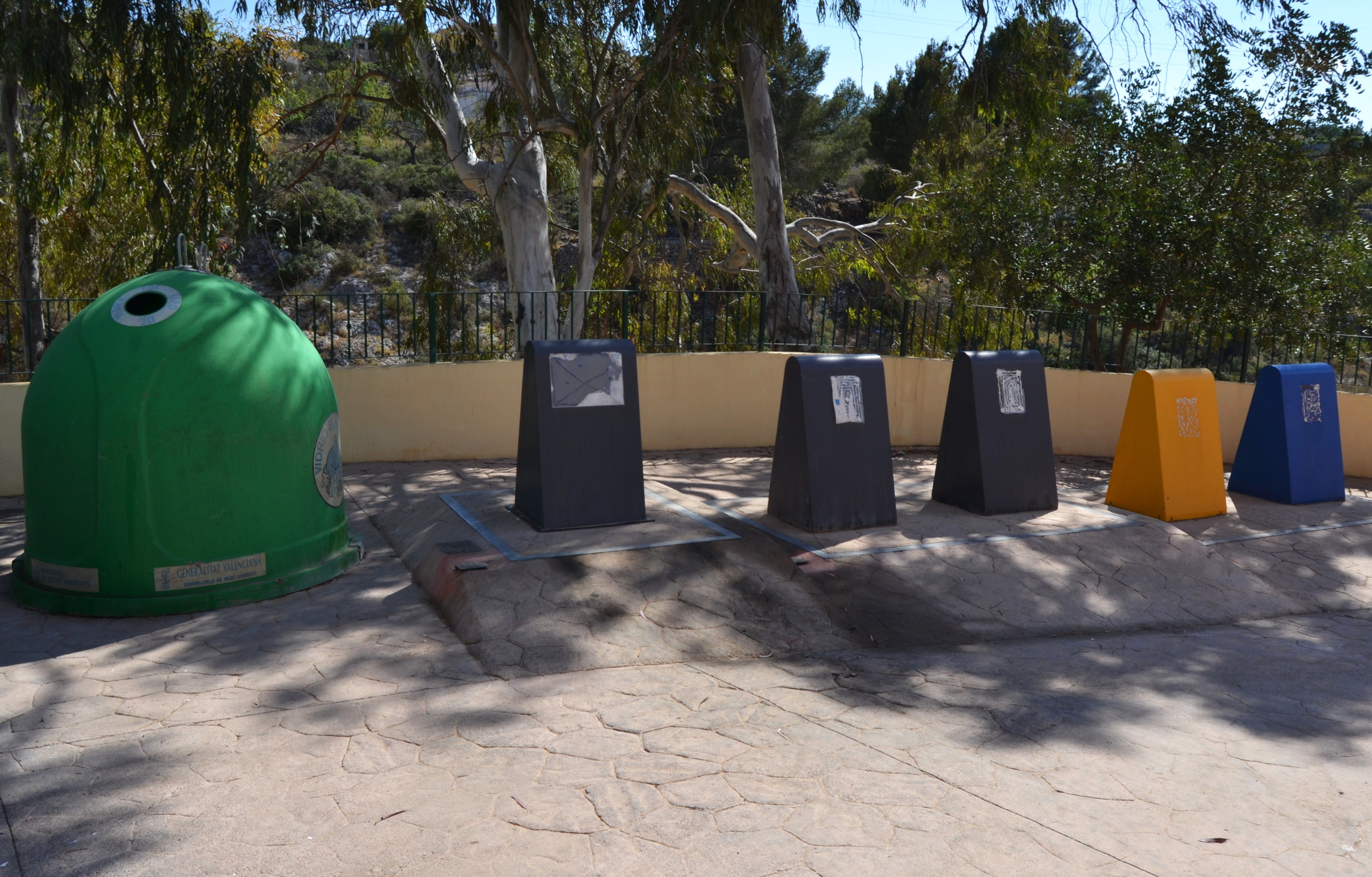 Underground sorted waste containers in Europe.